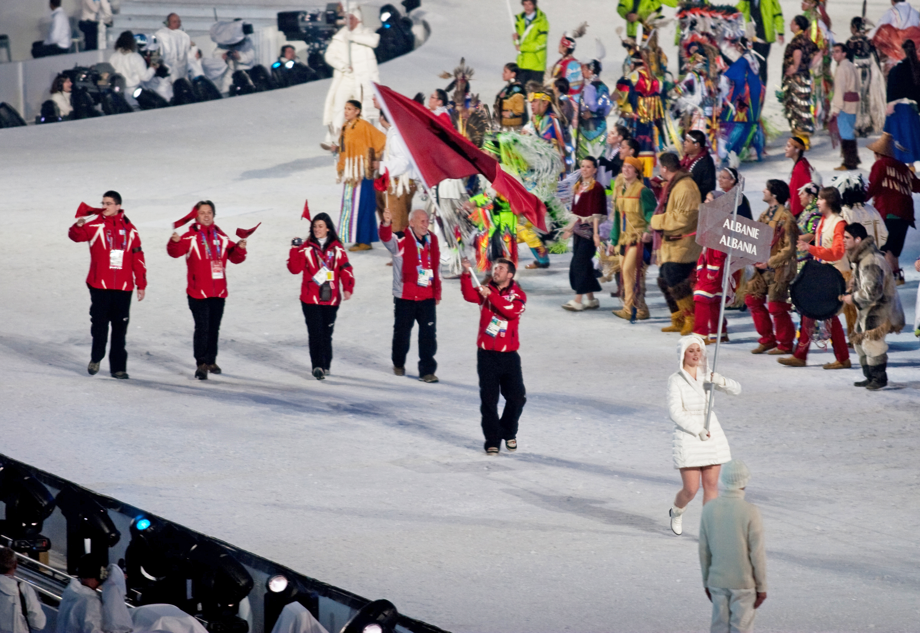 The athletes from Albania entering the stadium at the opening ceremonies of the 2010 Winter Olympics